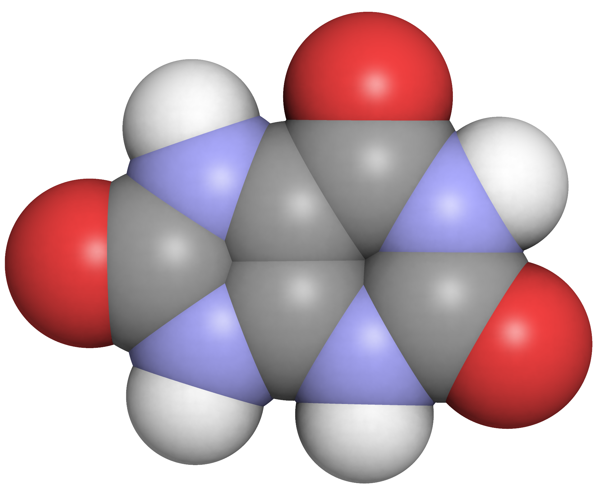 Created by using ACD Chemsketch and Weblab Viewer Lite 4